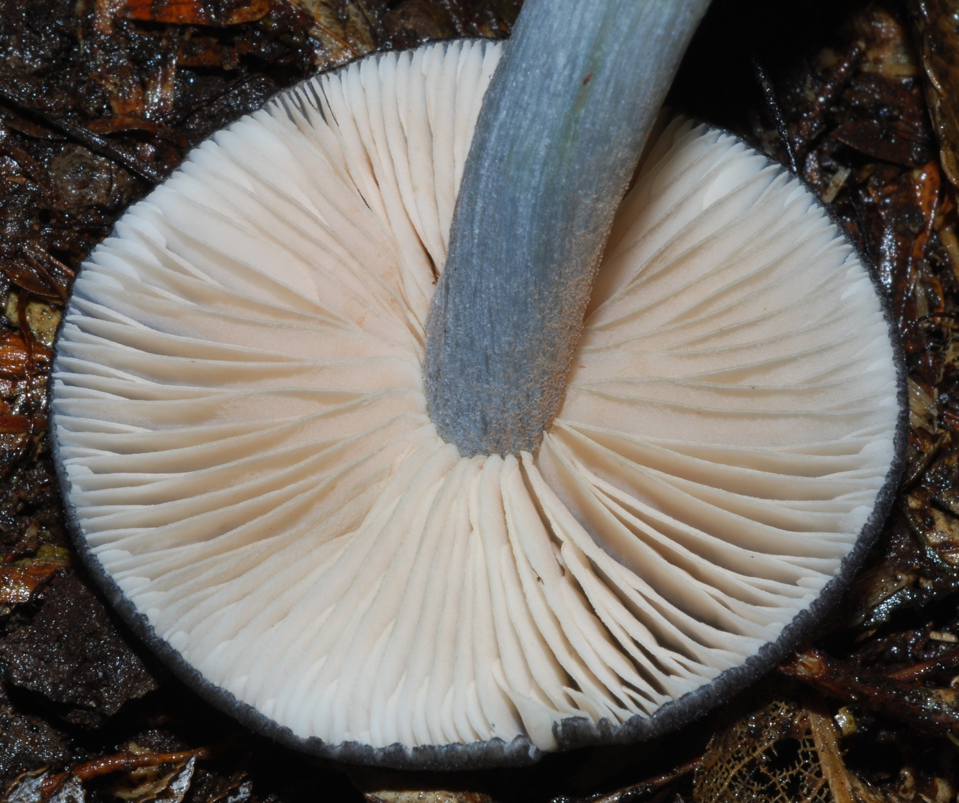 Entoloma haastii (G. Stev.) Location: Auckland, New Zealand Notes: Found in leaf litter under very old Leptospermum scoparium in native New Zealand forest.Pileus: 20-50mm in diameter. Hemispheric to plane. Colour silvery blue grey.Stipe: 50-60mm long by 10-15mm in diameter. Colour pale blue.Lamellae: Attachment adnate. Close to subdistant. Broad. Colour pale pink.